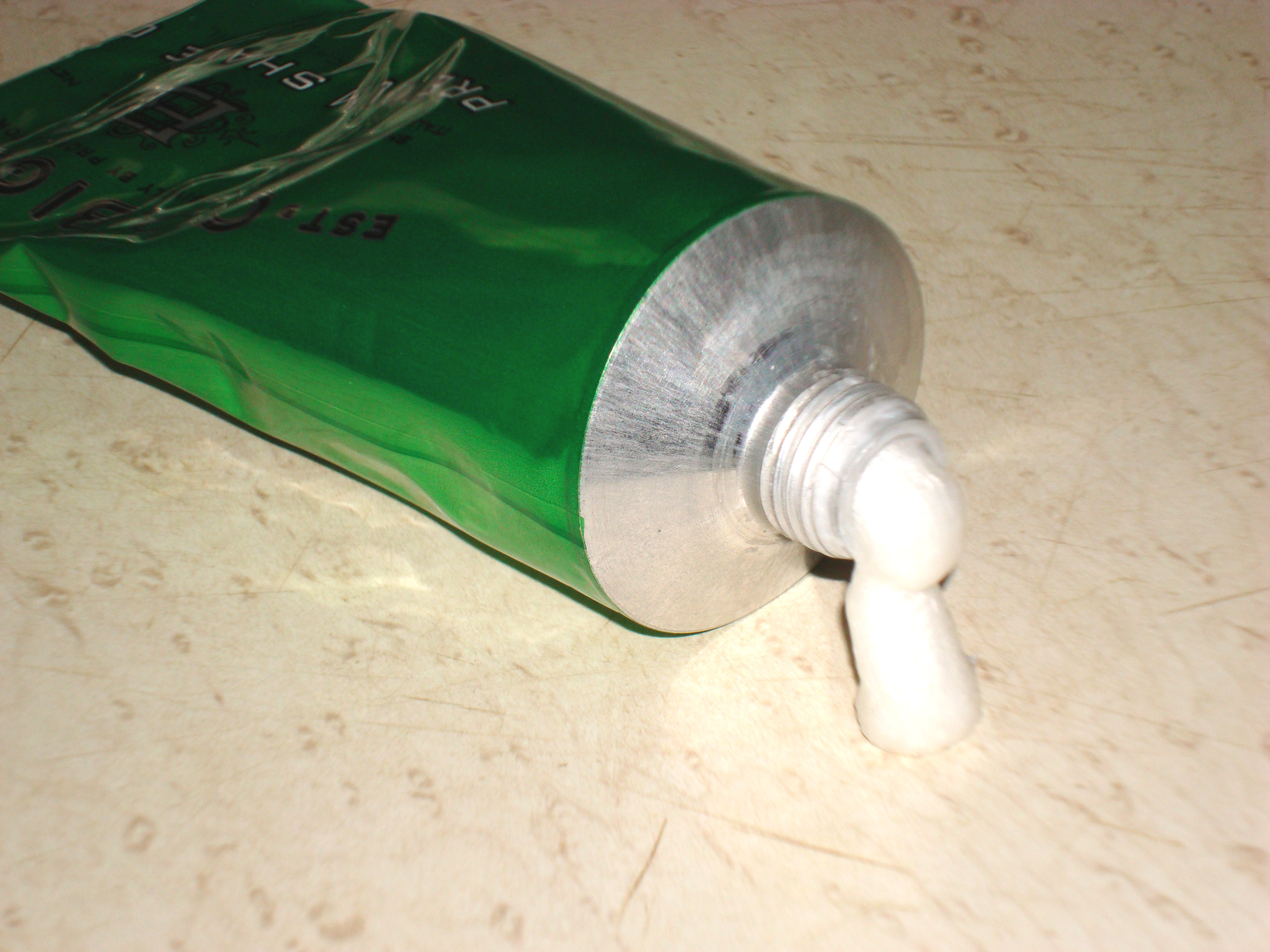 Traditional shaving cream.